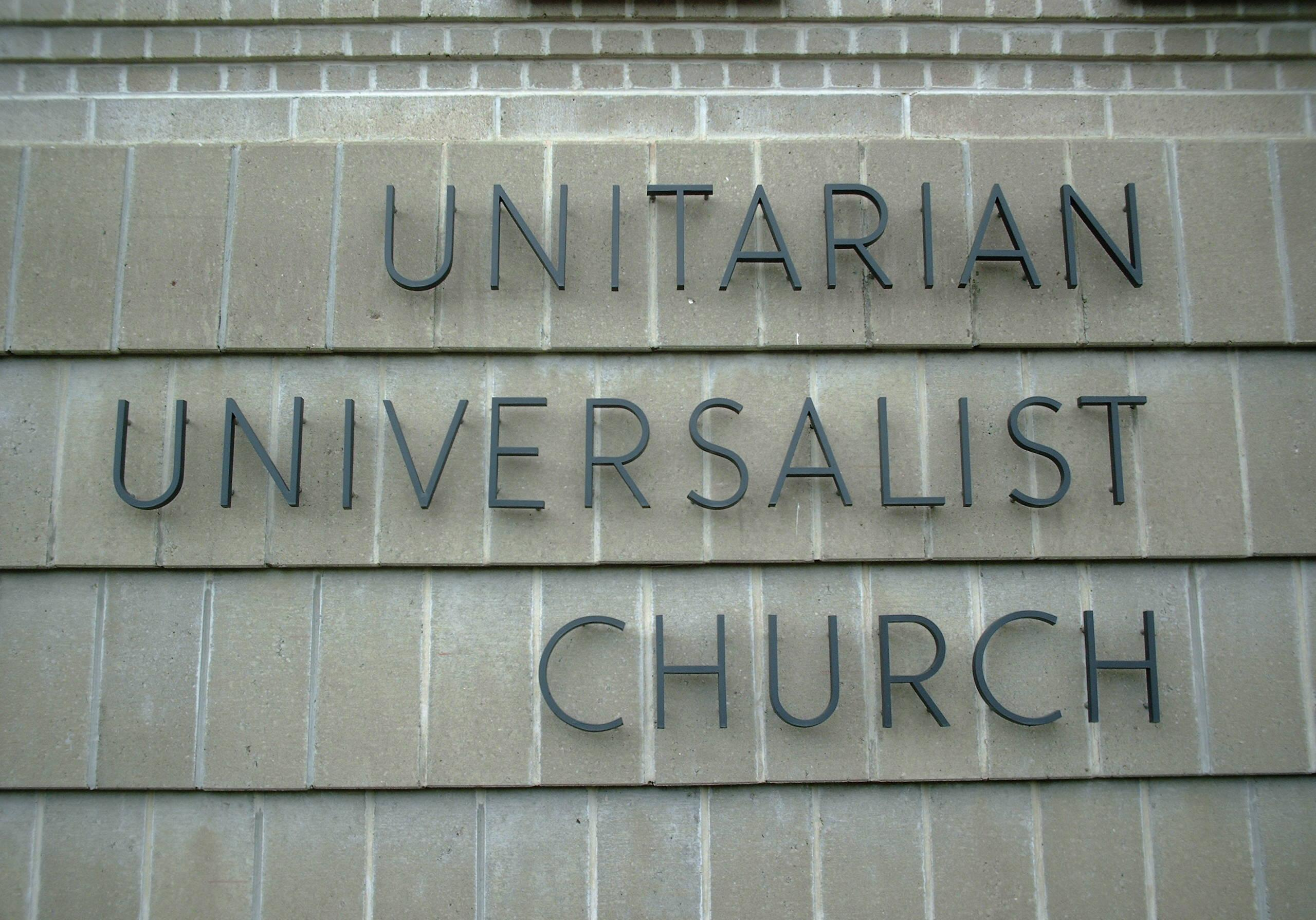 Photo I took today at the Unitarian Universalist church in Rochester, Minnesota. CC & GFDL.